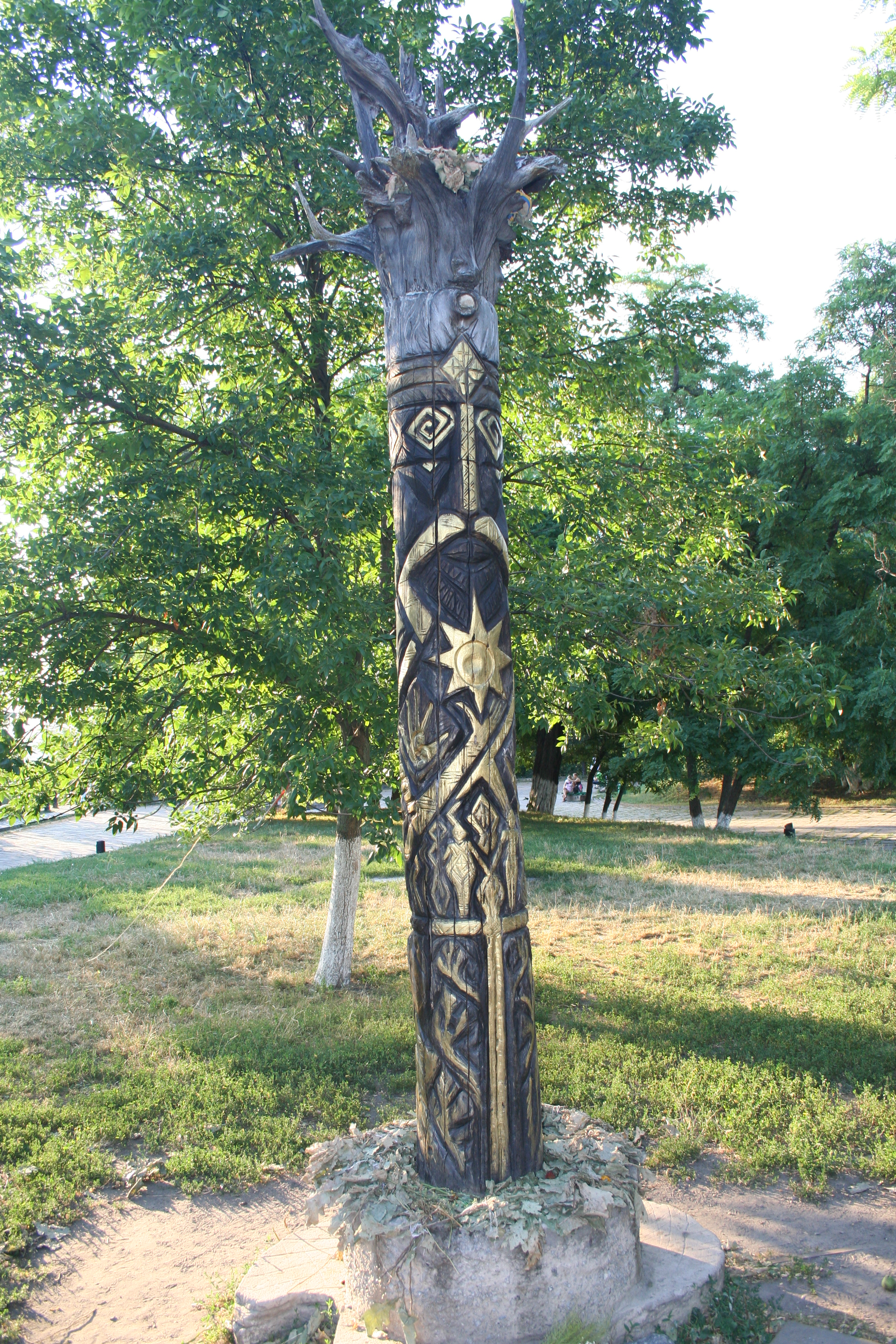 Statue of slavic god Perun erected by ukrainian ridnoviry ( slavic pagans ) in 2009, city of Kyiv.